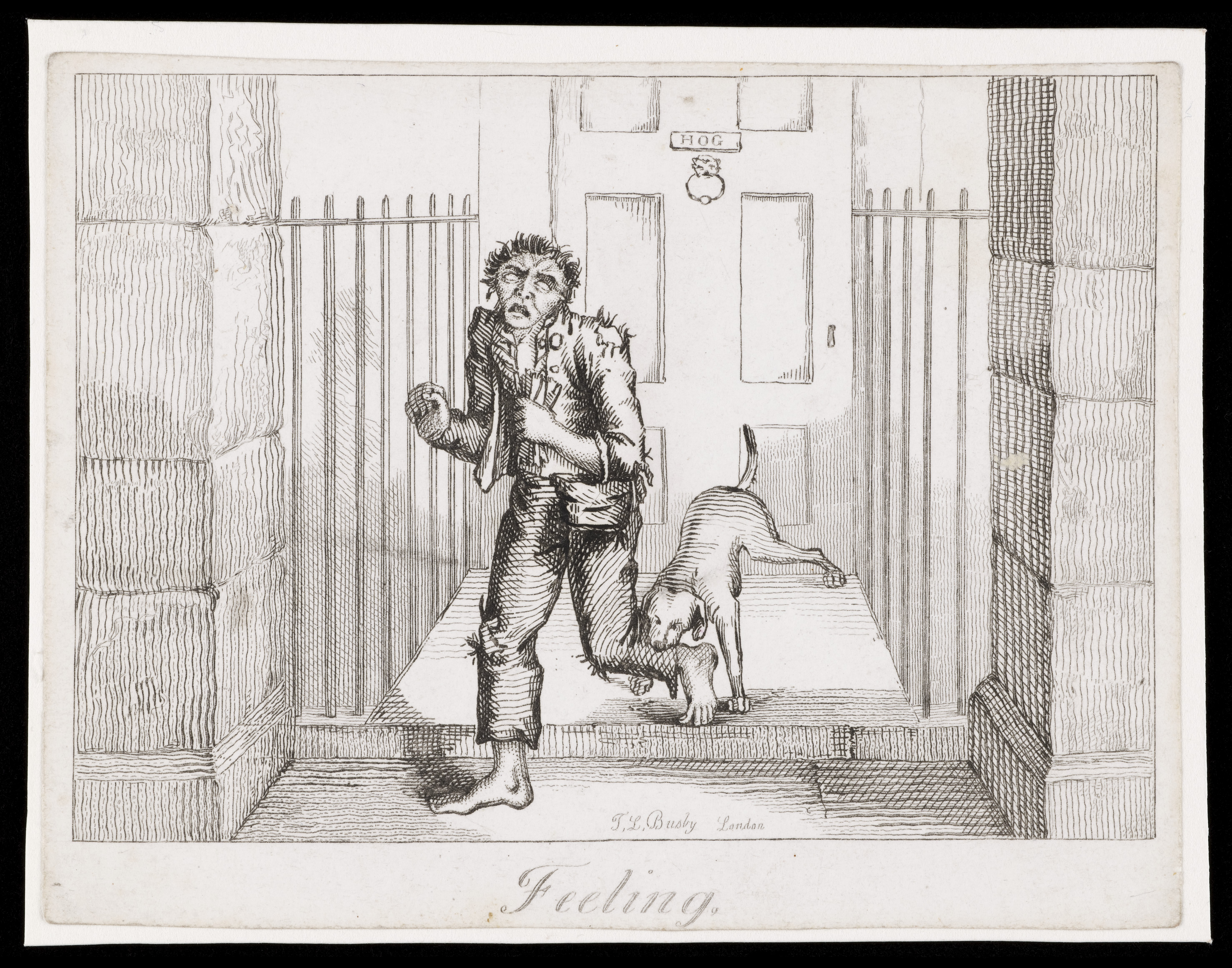 A raggedly dressed man being bitten by a guard dog at the entrance to a town house. Etching by T.L. Busby, ca. 1826 Iconographic Collections Keywords: Thomas Lord. Busby